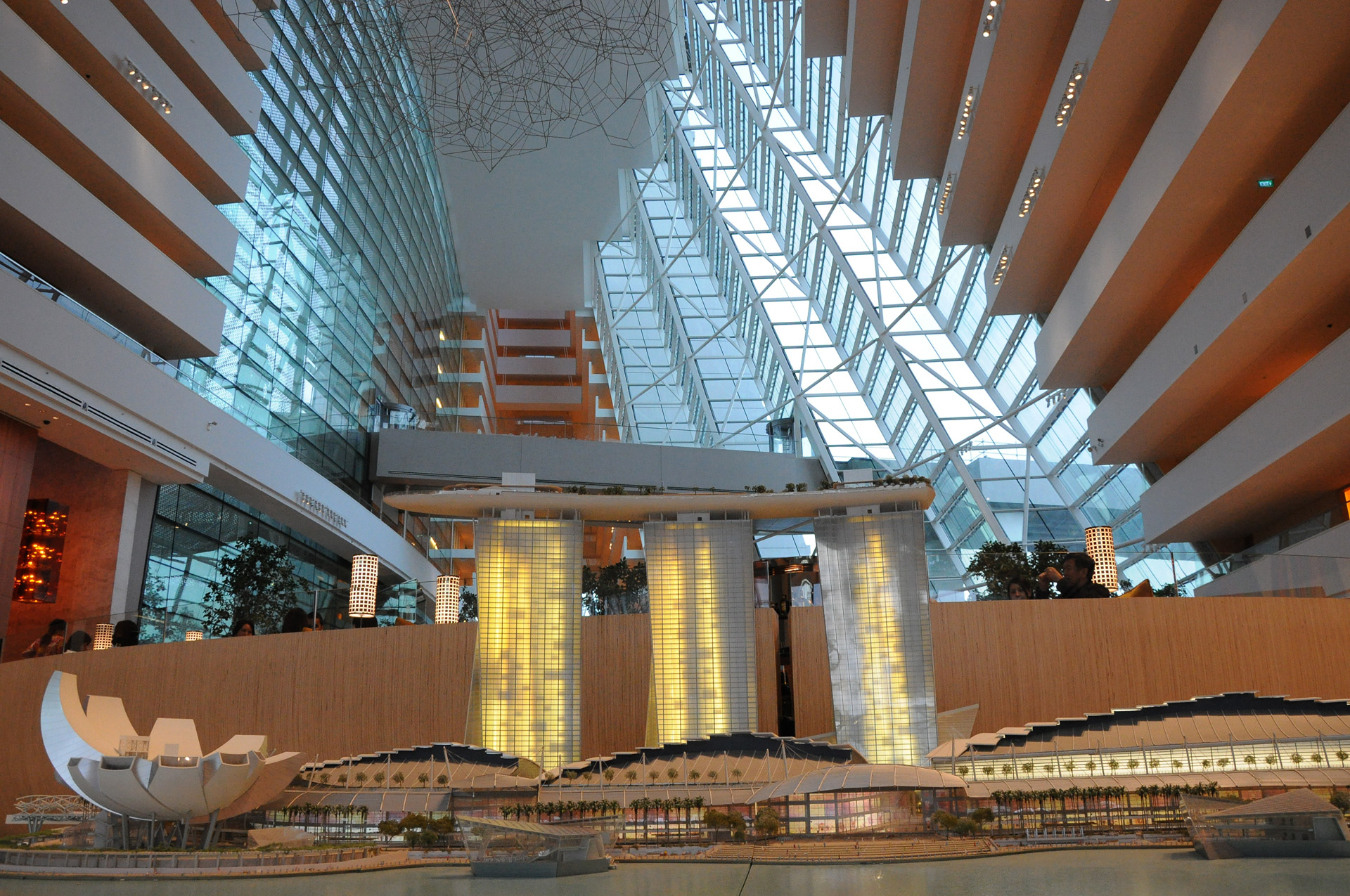 A model of Marina Bay Sands inside the Marina Bay Sands Hotel, Singapore.